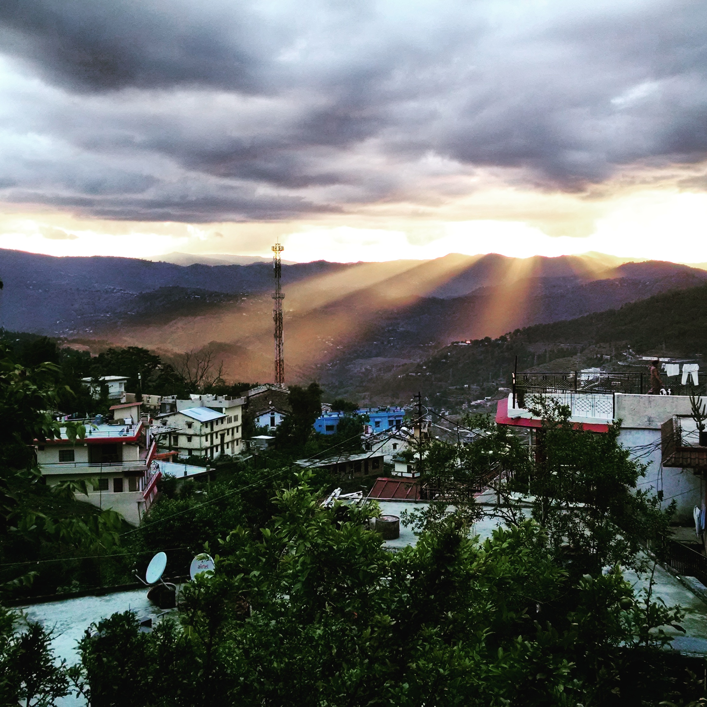 View of almora city after rainfall. The sunlight is penetrating the black clouds